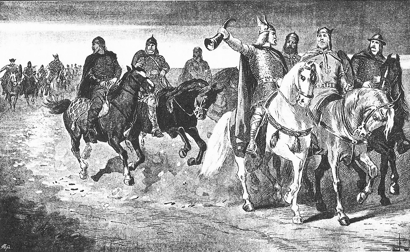 Hrolfr Kraki sows the seeds of the fyris wolds